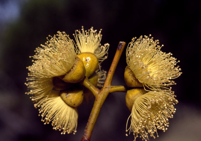 Eucalyptus balladoniensis subsp. sedens flowers